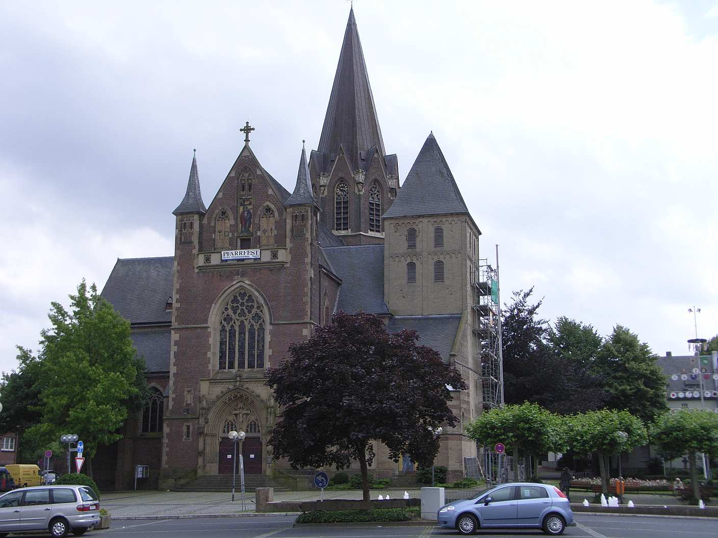 kath. Pfarrkirche St. Helena, MG-Rheindahlen